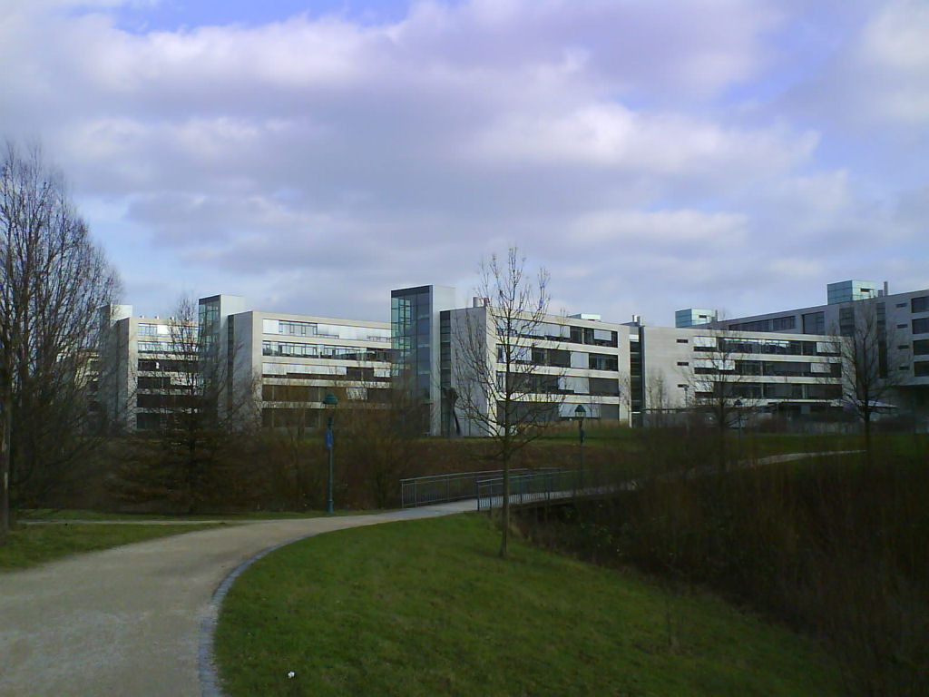 The "Bundesinstitut für Arzneimittel und Medizinprodukte" photographed from behind, with some nature in the foreground on a sunny day with blue sky.